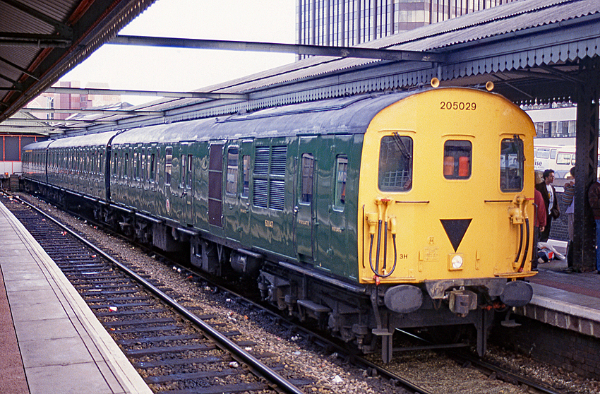 BR Class 205, formerly 3H unit 1129, 205029 repainted into BR green livery at Reading. Formed of vehicles 60147+60674+60828. Scanned from a Fujichrome 35mm slide.